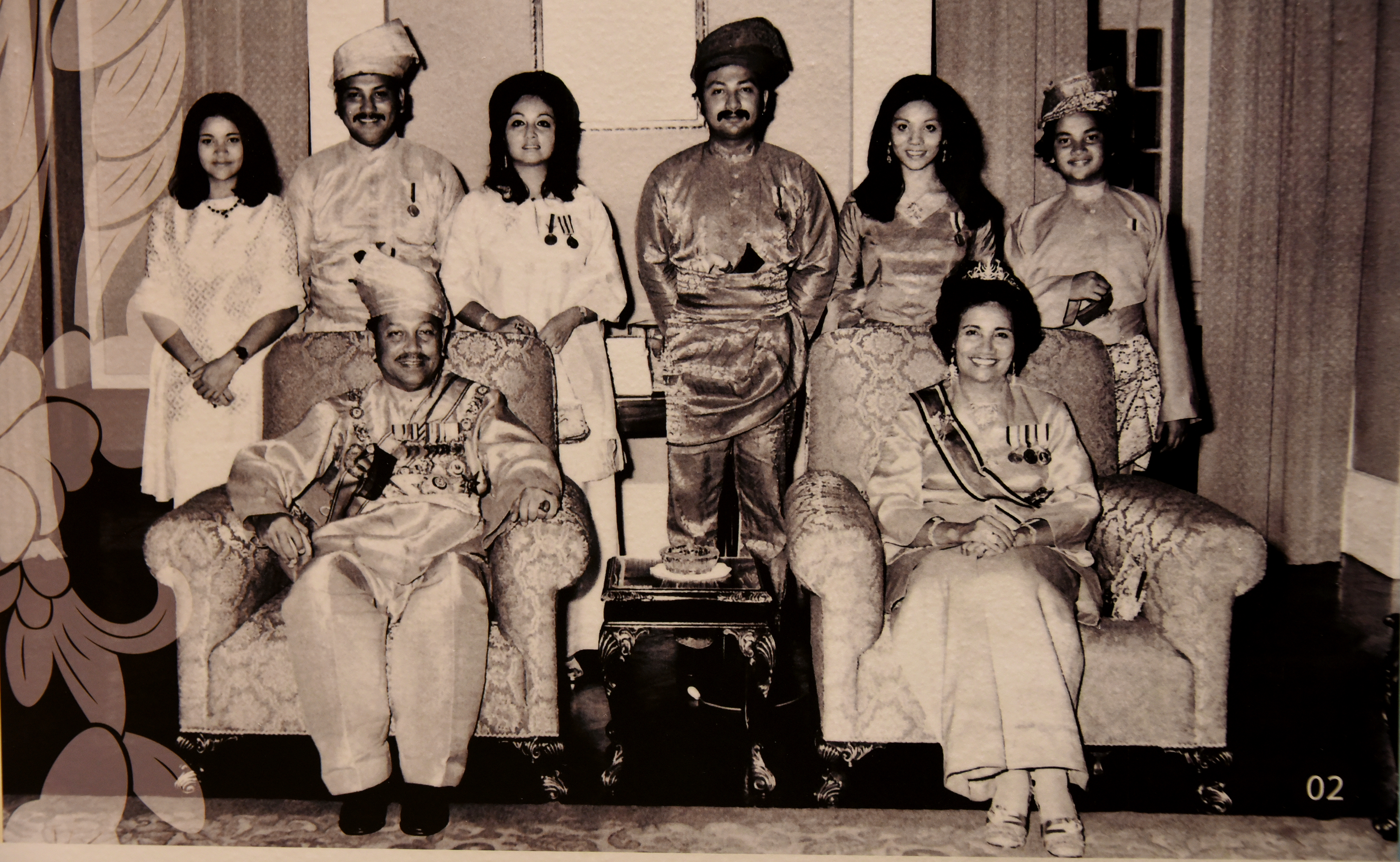 Photo of the royal family after HRH Tuanku Ja'afar was installed as the 10th Yang di-Pertuan Besar of Negeri Sembilan in 1968. The name of the photographer was not mentioned. The original image is © the Tuanku Ja'afar Royal Gallery, Seremban, Negeri Sembilan, Malaysia.